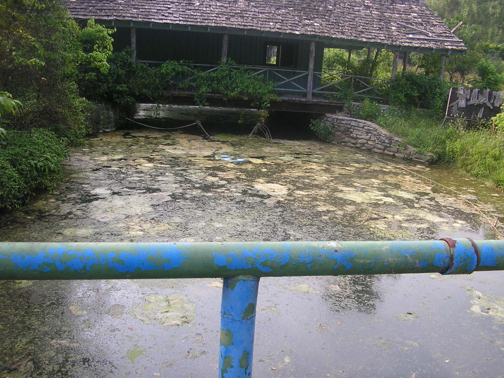 This is a picture from the now defunct amusement park Dogpatch USA